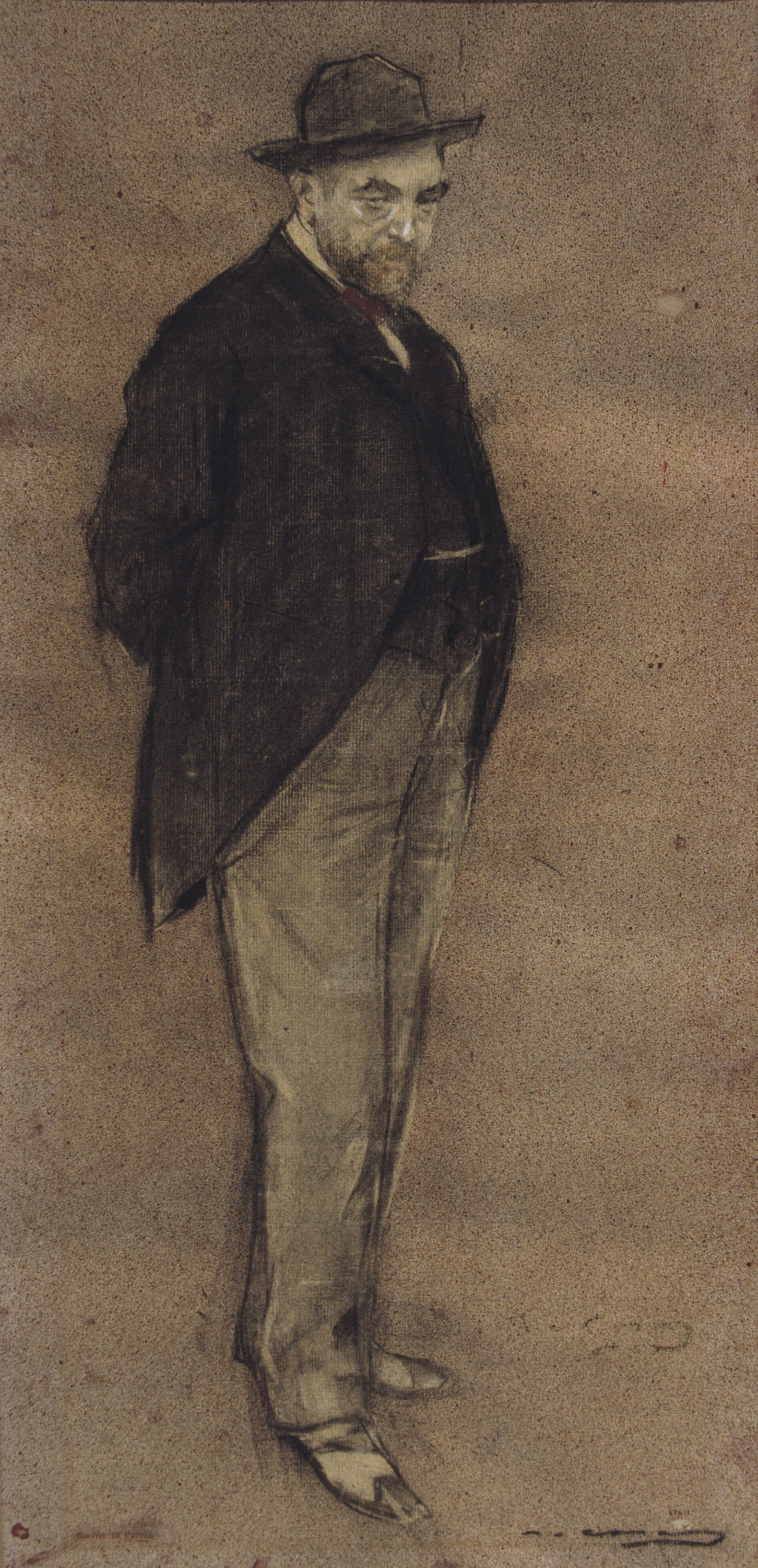 Portrait by Ramon Casas conserved at MNAC in Barcelona.